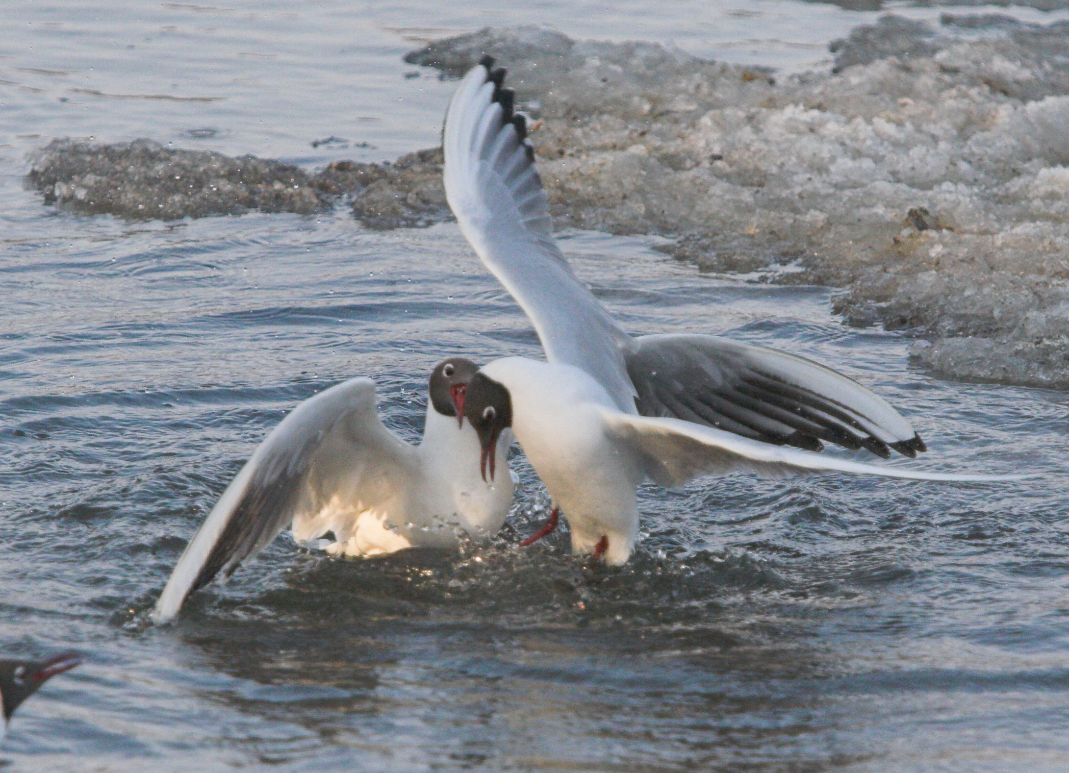 A five-photograph series of fighting Larus ridibundus gulls. Photographer's description: "Before I started photographing these gulls, the gull that came under attack was accompanied by another swimming gull, whose head can be seen in the final (out-of-focus) picture. I presume this incident to connect to mating or similar."